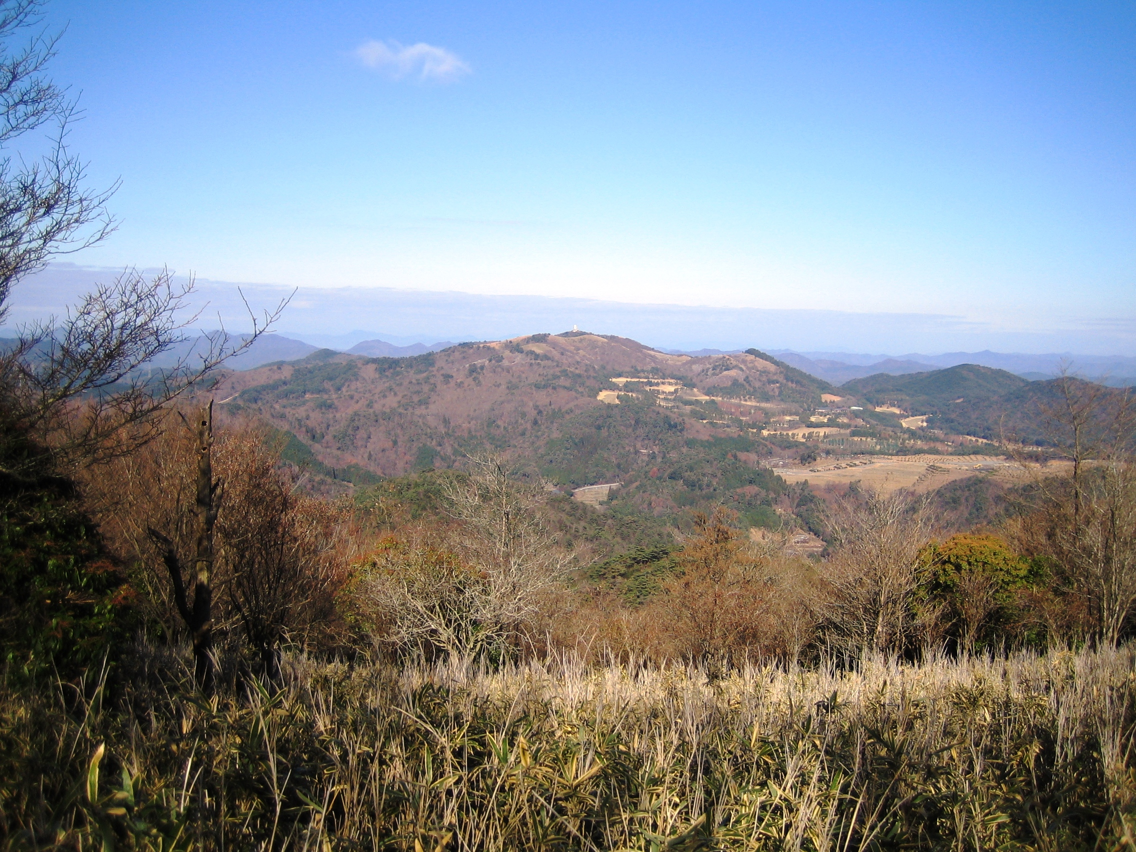 Looking north from Mount Yokoo, in Nose, Osaka, Japan. Miyama in the center.